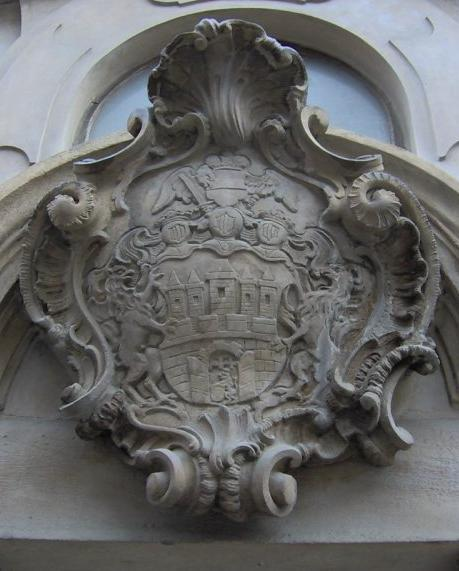 Coat of arms of Malá Strana (Lesser Quarter) in Prague; embossment on St. Nicholas' belfry